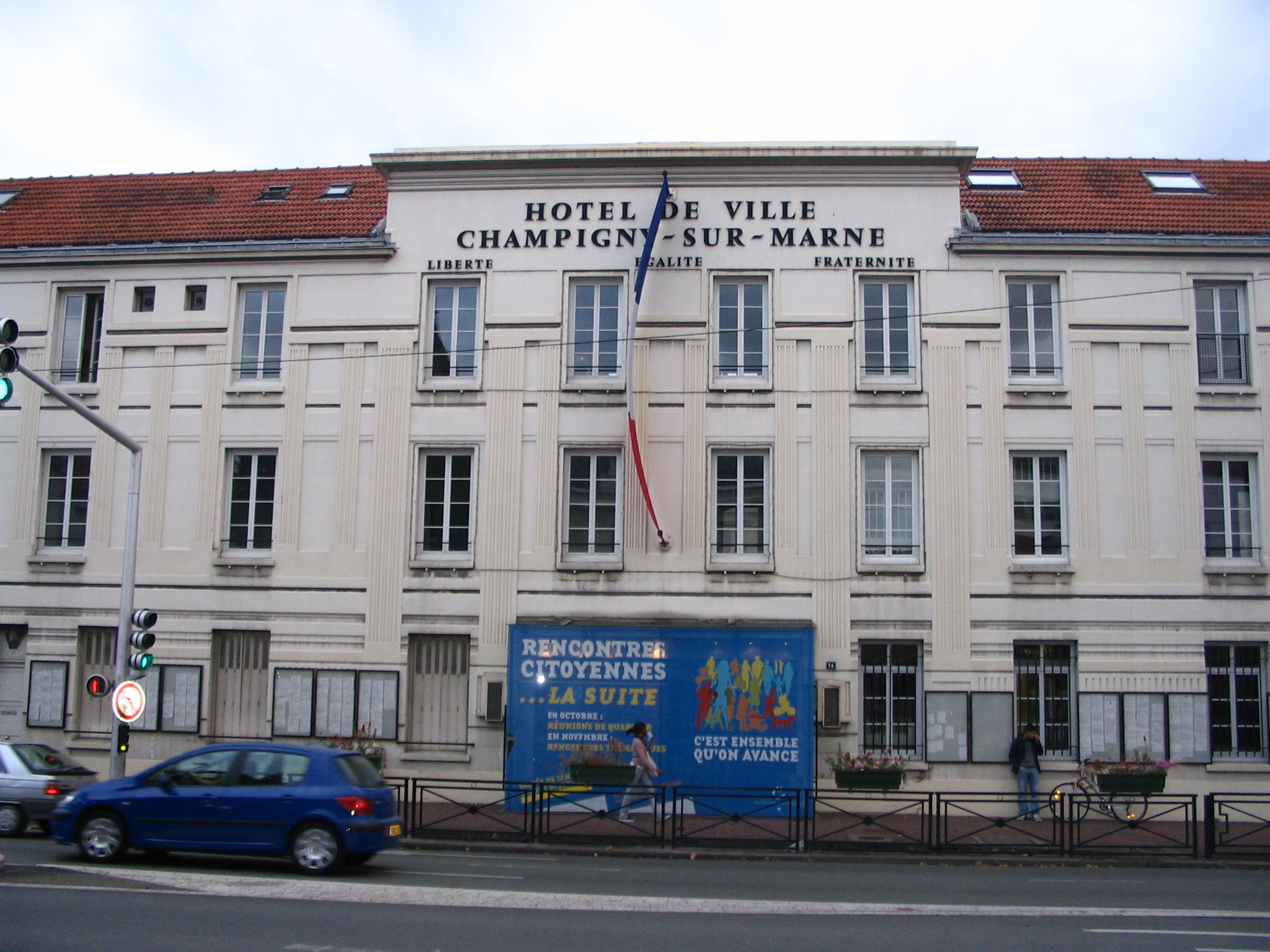 The new town hall of Champigny-sur-Marne, Val-de-Marne, France. It faces the former one.